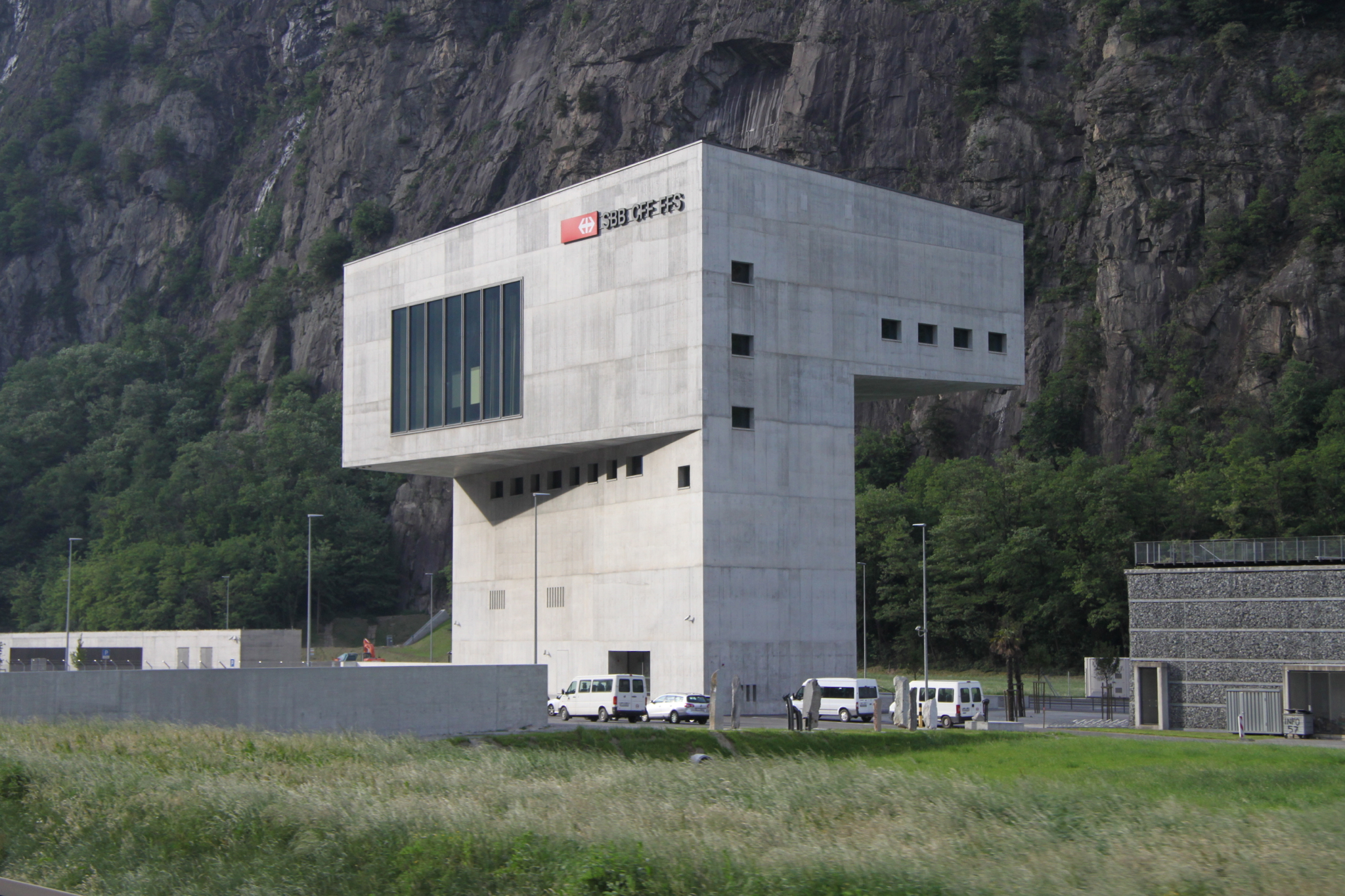 "Periscopio" signal box in Pollegio.